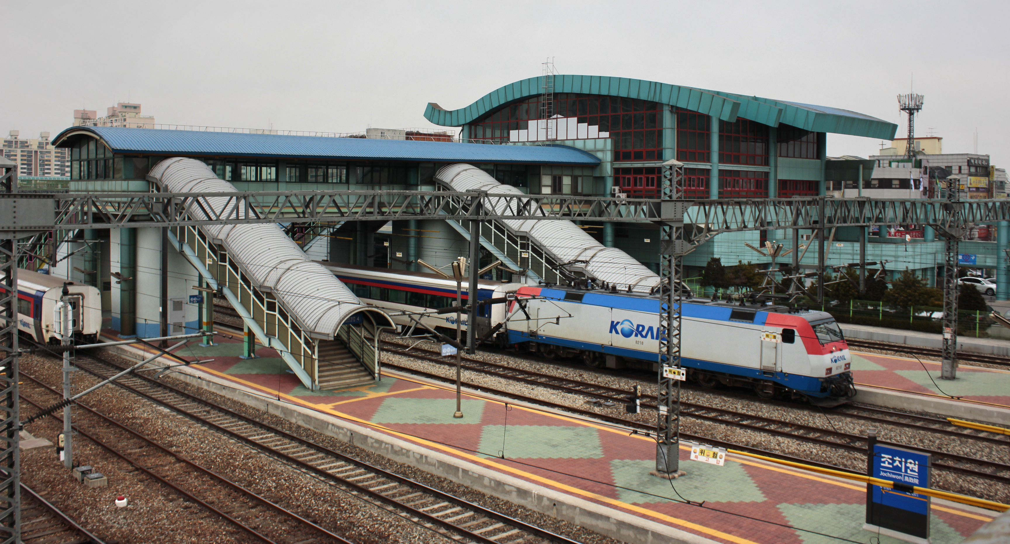 Jochiwon Station, March 2014